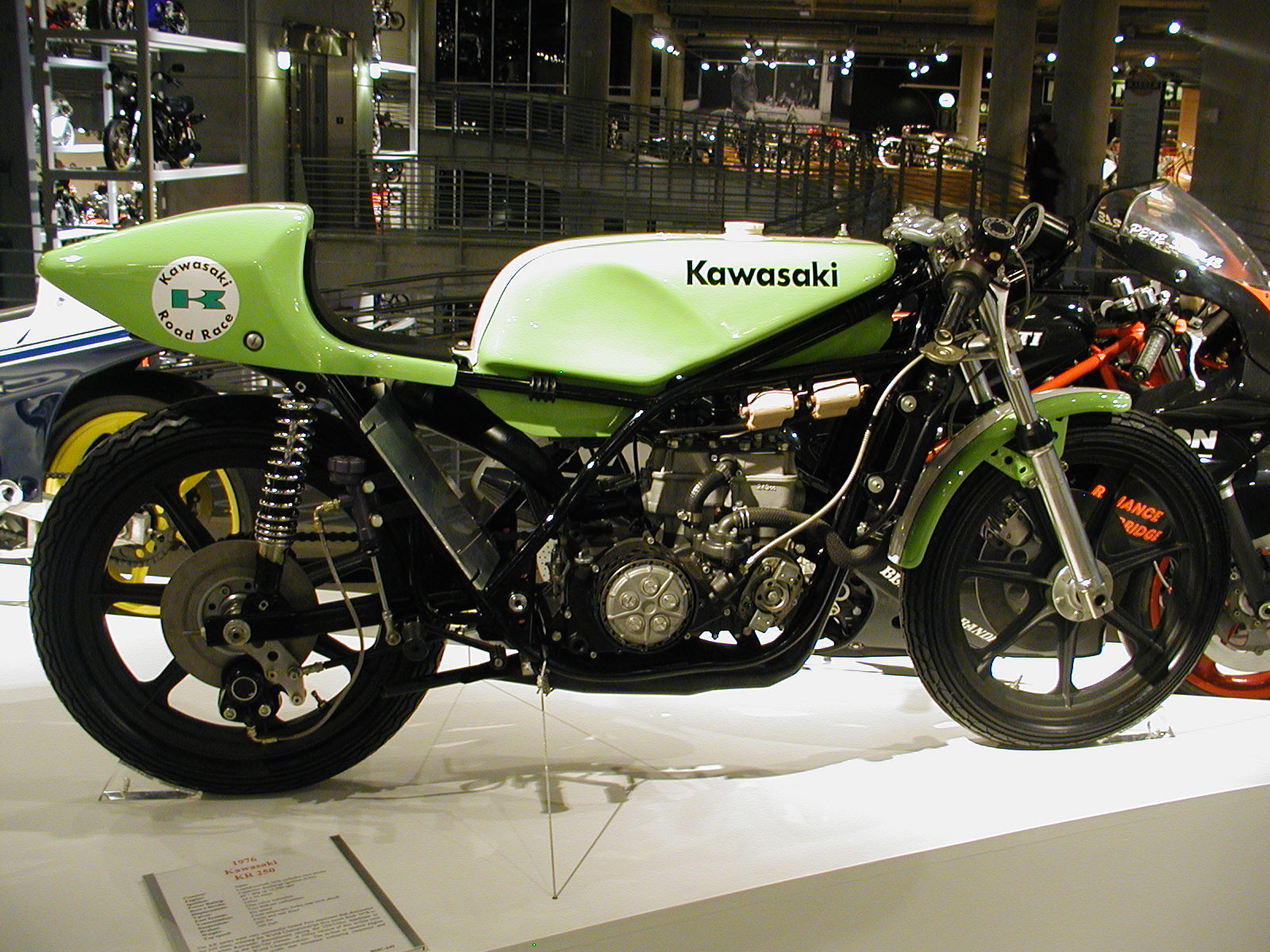 Barber Motorcycle Museum - Oct 22 2006 (140) 1976 Kawasaki KR250 More Description is here